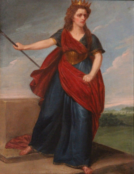 Jane Powell as Boadicea by Samuel De Wilde maybe?? 1795 - painting owned by the Garrick Club